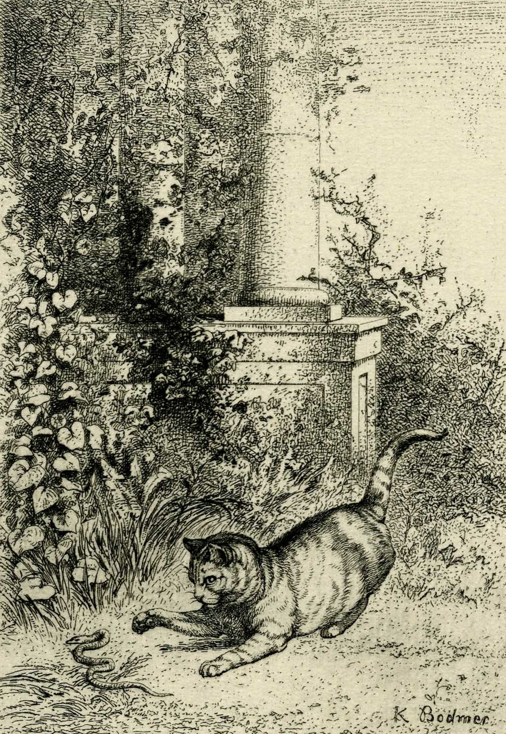 Cat playing with an adder. Etching by Karl Bodmer about 1873.